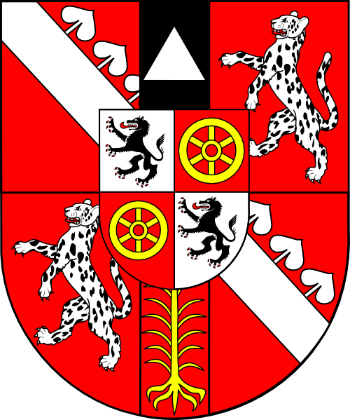 Coat of arms (shield only) of Leopold cardinal Kollonich, bishop of Nitra, Slovakia (1666 - 1669), bishop of Wiener Neustadt, Austria (1669 - 1686), bishop of Győr, Hungary (1685 - 1695), archbishop of Kalocsa, Hungary (1690 - 1695), archbishop of Esztergom, Hungary (1695 - 1707), based on sculpture in Old Townhall and his tombstone in Bratislava